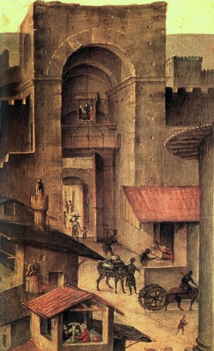 showing how it looked at that time